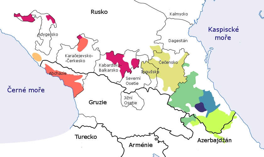 Map of northcaucasian languages - cz